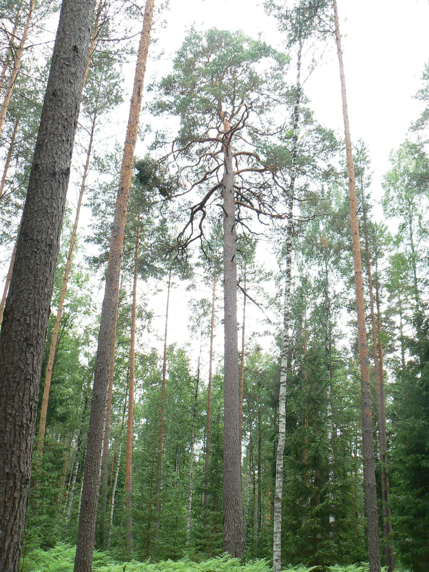 Pidapa Old Pine in Estonia